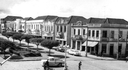 Maurício Cardoso Avenue in 1920 - Erechim, Rio Grande do Sul, Brazil.